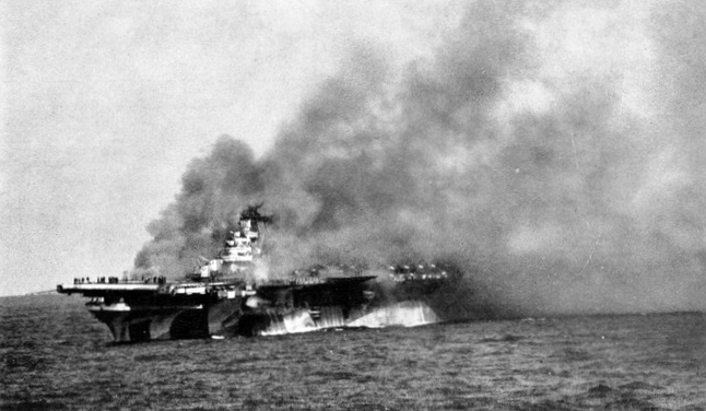 the U.S. Navy aircraft carrier USS Ticonderoga (CV-14) afire after she was hit by a "Kamikaze" attack off Formosa, 21 January 1945.